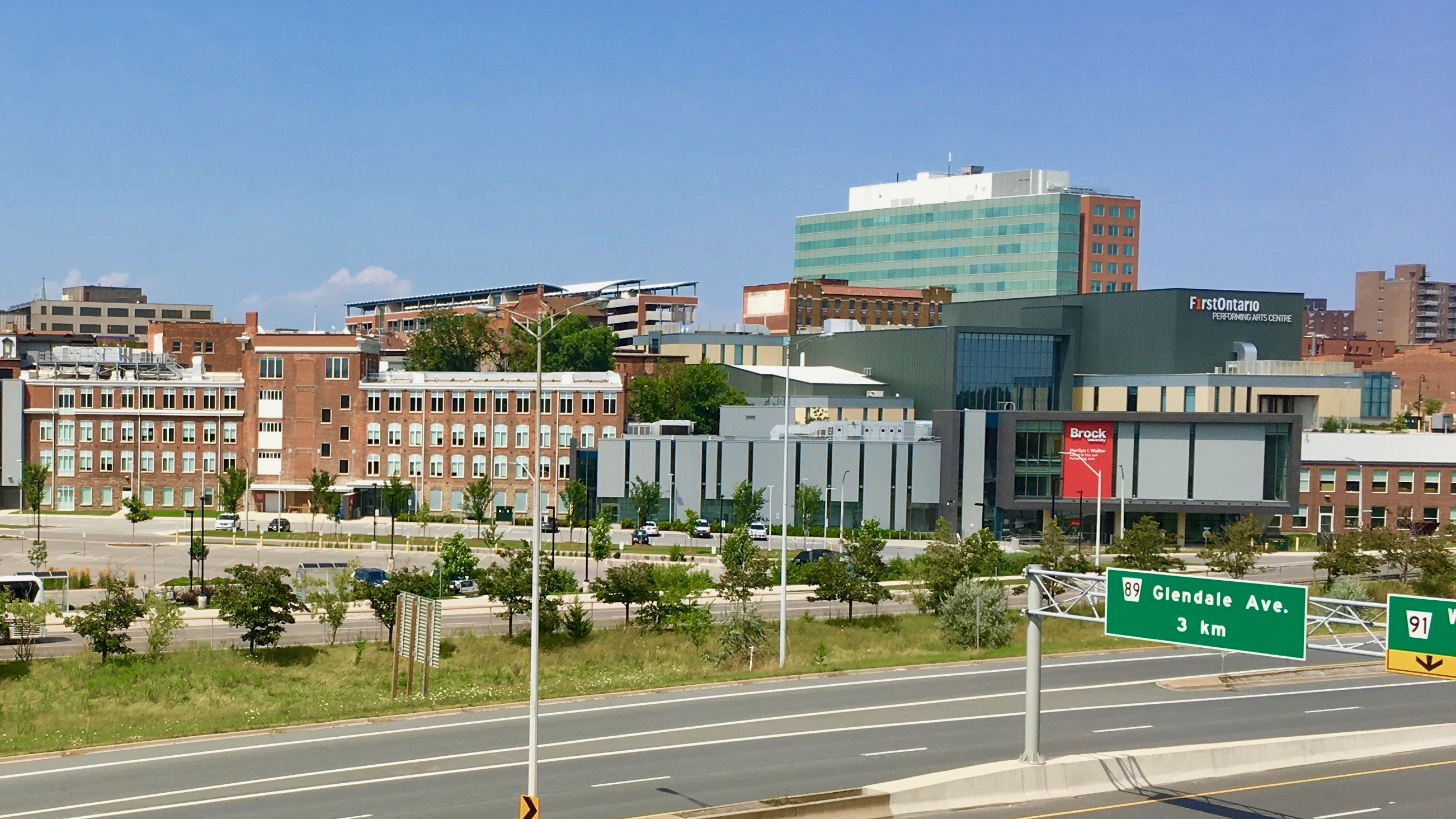 This is a view of the Marilyn I Walker School of Fine and Performing Arts, a campus of Brock University, in St. Catharines, Ontario. Seen from the Westchester overpass, taken in August 2017.